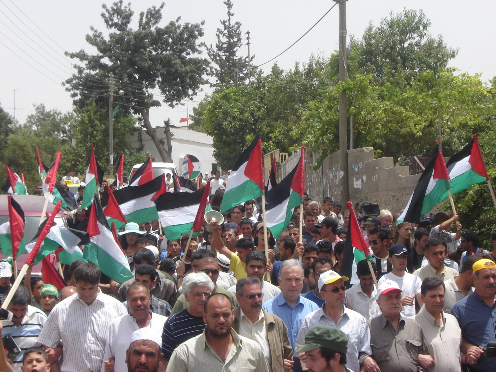 demonstrations against Apartheid Wall in Bil'in / 2006